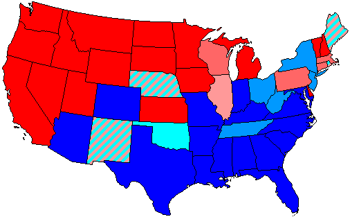 Summary of party control of U.S. house seats in the 62nd United States Congress following election. Stripes indicate a tie between two or more parties. Legend: 80.1-100% Democratic seat majority 60.1-80% Democratic seat majority 60% or less Democratic seat plurality 60% or less Republican seat plurality 60.1-80% Republican seat majority 80.1-100% Republican seat majority